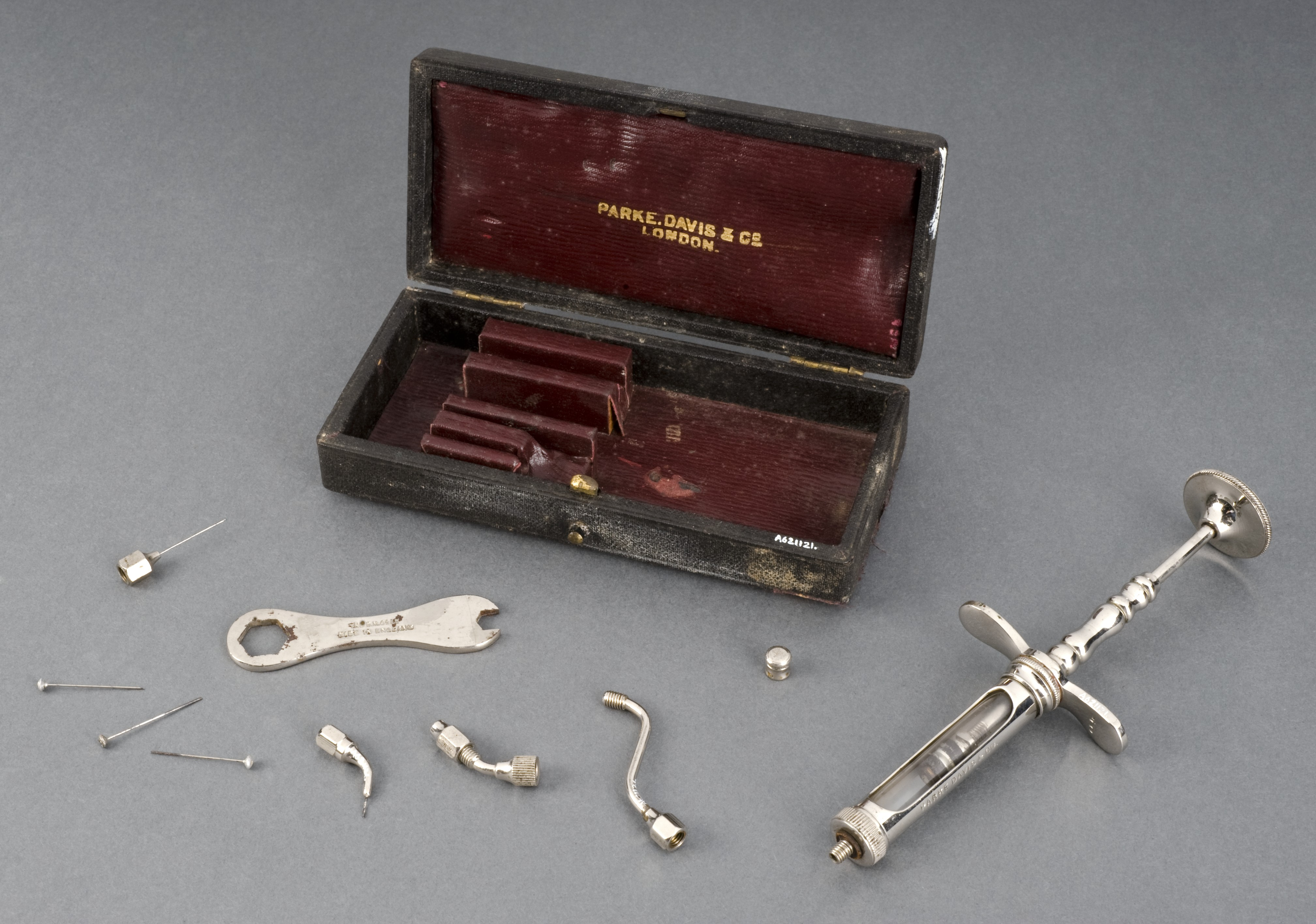 Numbing the mouth during dental treatments relieves the patient of pain. This syringe was used with an anaesthetic such as cocaine. The syringe barrel is stamped with the name of the maker and the date it was patented. Parke, Davis and Co., who made this syringe, was well known for producing cocaine-based products in the 1870s. maker: Parke, Davis and Company Limited, maker: Claudius Ash, maker: Dental Manufacturing Company Limited Place made: England, United Kingdom Wellcome Images Keywords: anaesthetic; Cocaine; anaesthetic syringe; Dentistry